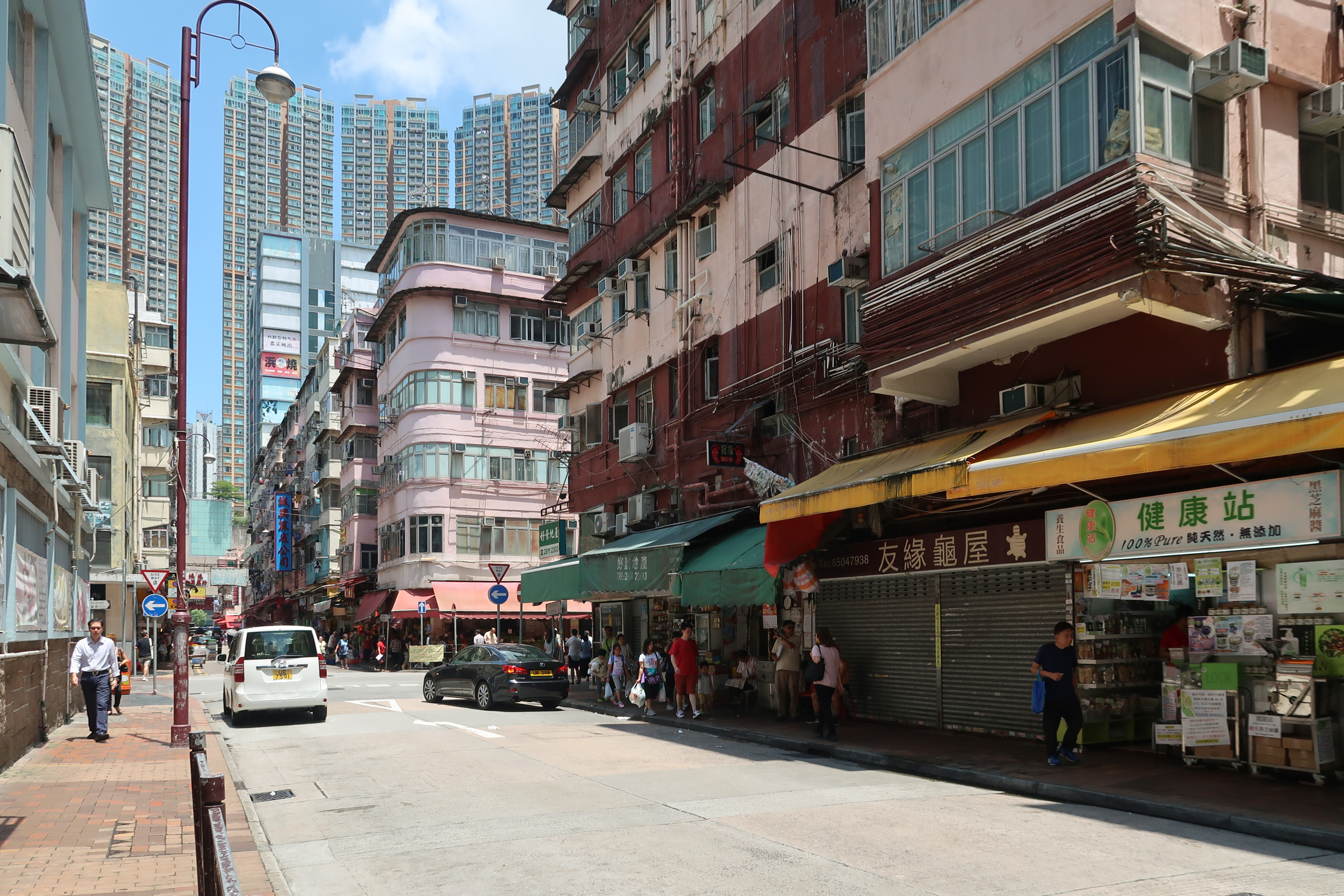 Ho Pui Street